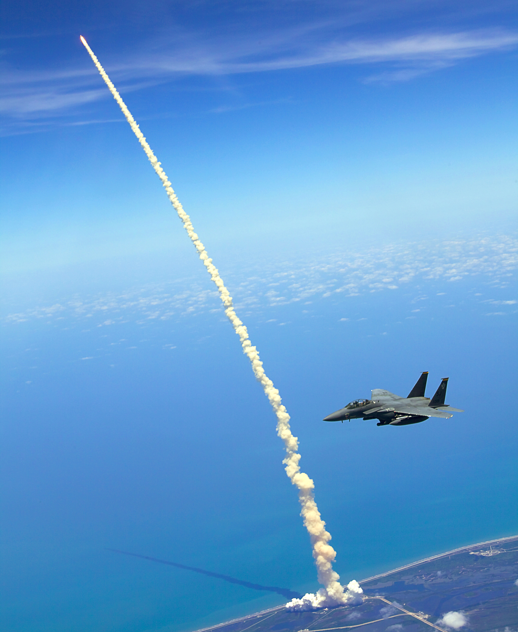 Lt. Col. Gabriel Green and Capt. Zachary Bartoe patrol the airspace in an F-15E Strike Eagle as the Space Shuttle Atlantis launches May 14, 2010, at Kennedy Space Center, Fla. Colonel Green is the 333rd Fighter Squadron commander and Captain Bartoe is a 333rd FS weapons system officer. Both aircrew members are assigned to Seymour Johnson Air Force Base, N.C.